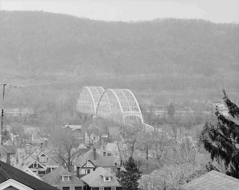 HAER PA,2-CORA,1-1 Photographer: (Views 1-27) Robert C. Shelley P.A.C. Spero & Company April 1989 DISTANT VIEW FROM SOUTHWEST, SHOWING ENVIRONMENT PA-21 7-1 Coraopolis Bridge image, overall view from Coraopolis side, retrieved from Historic American Engineering Record